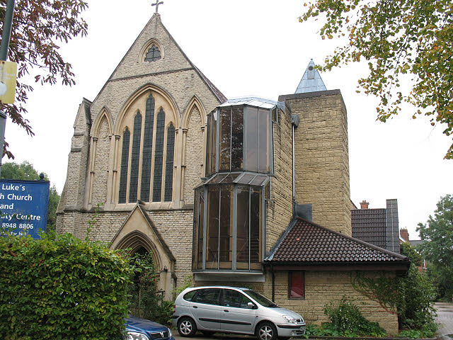 St Luke's church, Kew - west end This church on The Avenue was built in 1889 and is not listed. It was originally called St Luke, North Sheen but the parish name was later changed to Kew, perhaps to reflect its location close to Kew Gardens. The modern glazed stairwell and other additions to the west end date from 1983 when the nave was converted into a community centre [link].